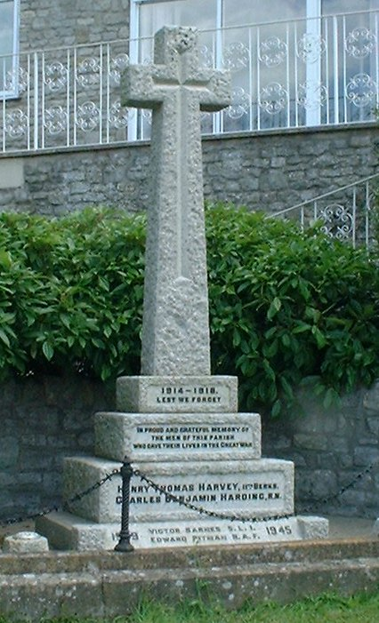 War Memorial in Compton Dando. Taken by Rod Ward 22nd June 2006